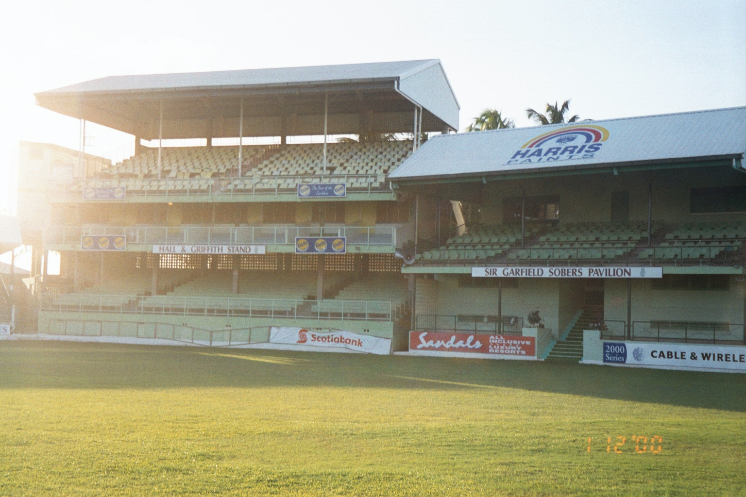 The former Wes Hall & Charlie Griffith and Sir Garfield Sobers stands at the Kensington Oval, Barbados.